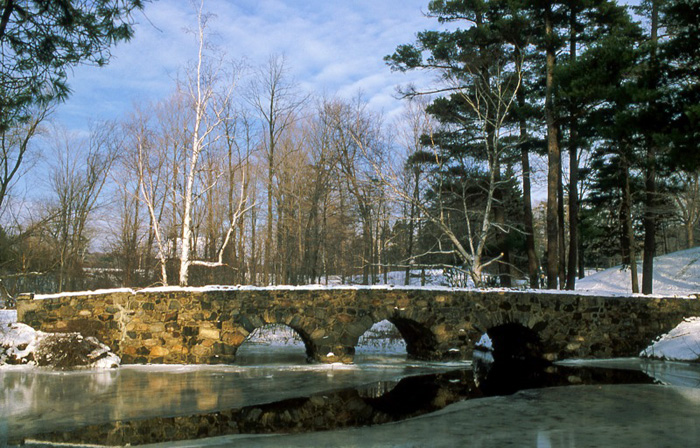 Arch bridge, commissioned by Edson Loy Pease. A component of the Mont Saint-Bruno's hydrographical network, back when the region had 6 water mill in operation during the 18th and the 19th century,Mont-Saint-Bruno National Park, Québec, Canada